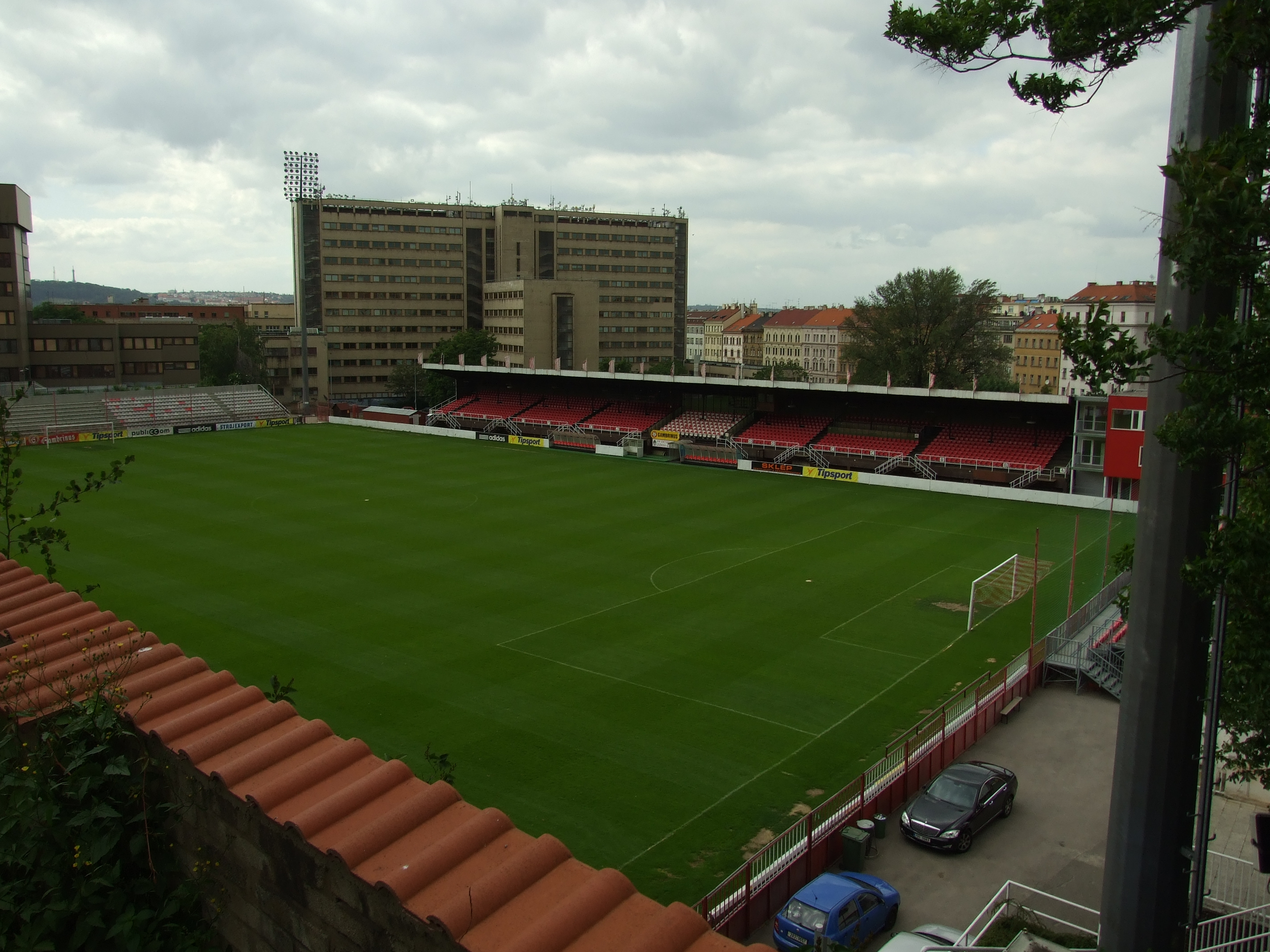 Viktoria Žižkov football (soccer) team stadium in Prague, CZhelp